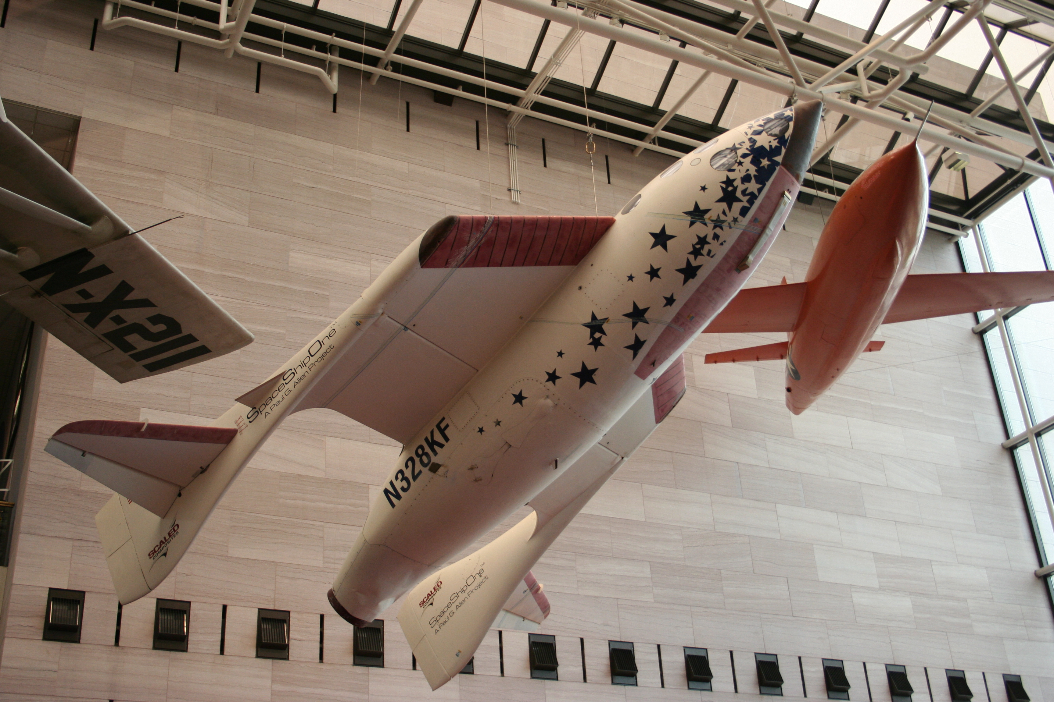 SpaceShipOne hanging from the ceiling next to the Bell-X1 and Spirit of St. Louis.